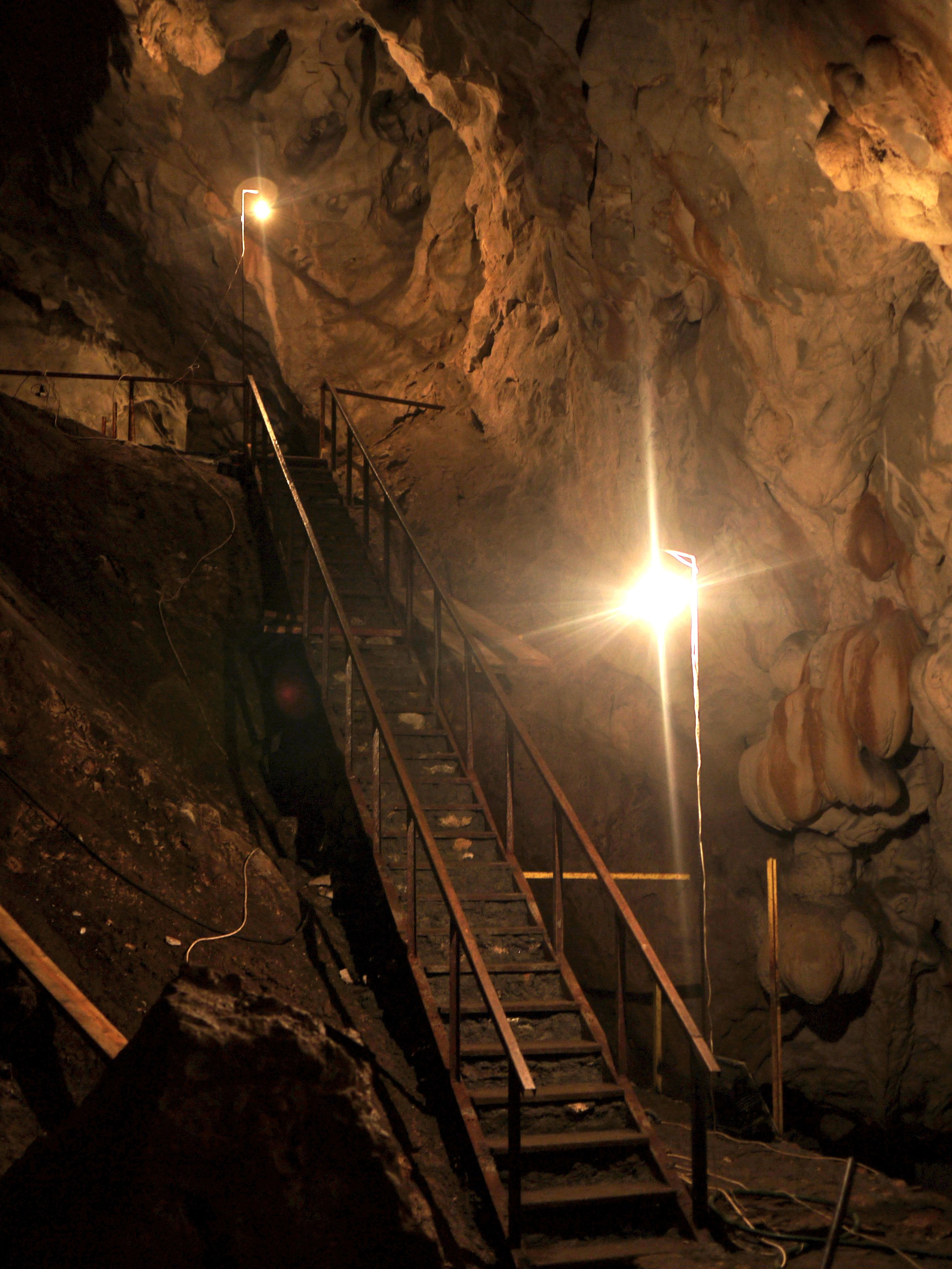 Vrelo Cave stairs